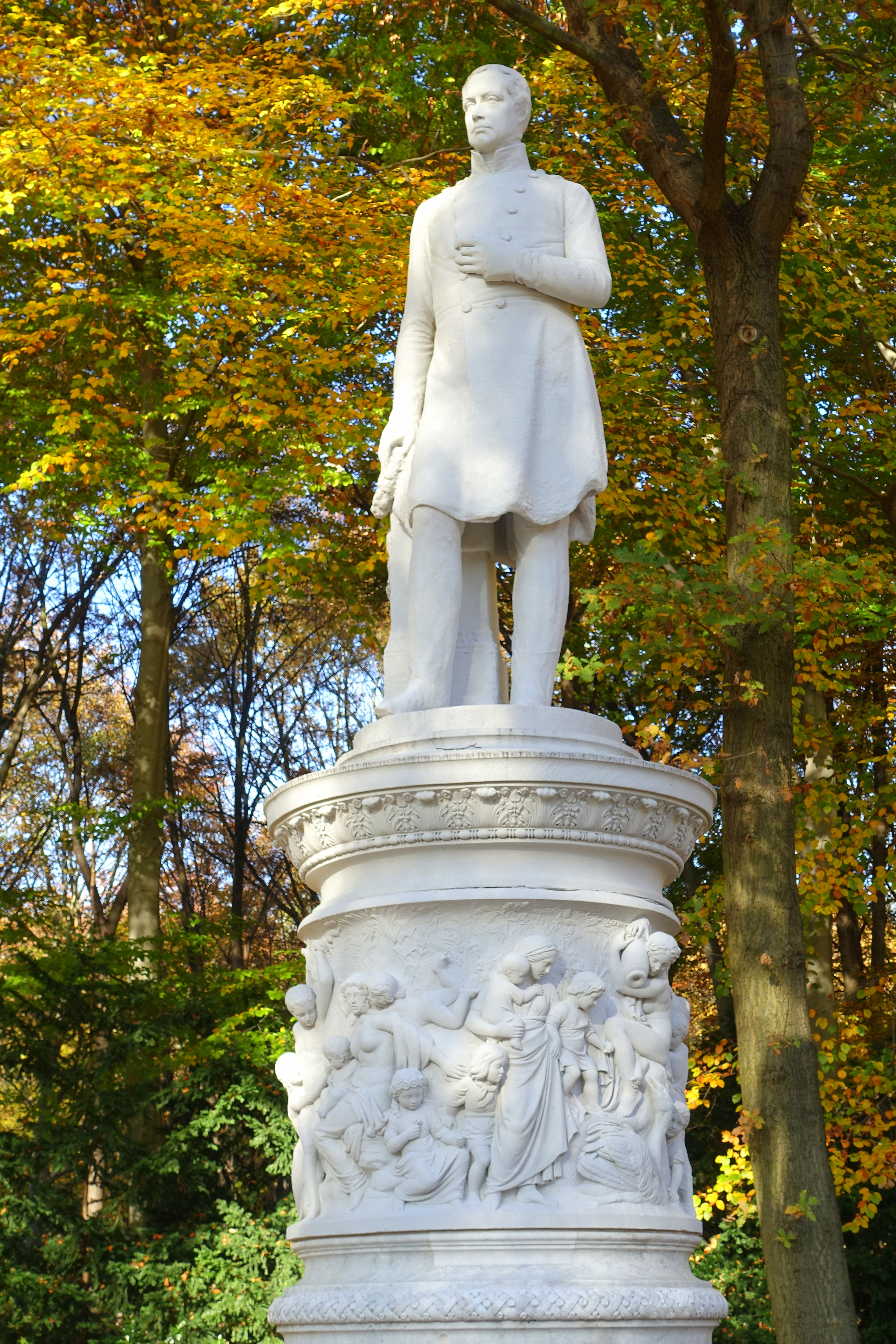 Friedrich Wilhelm III by Friedrich Drake (1805–1882) - Großer Tiergarten, Berlin, Germany.